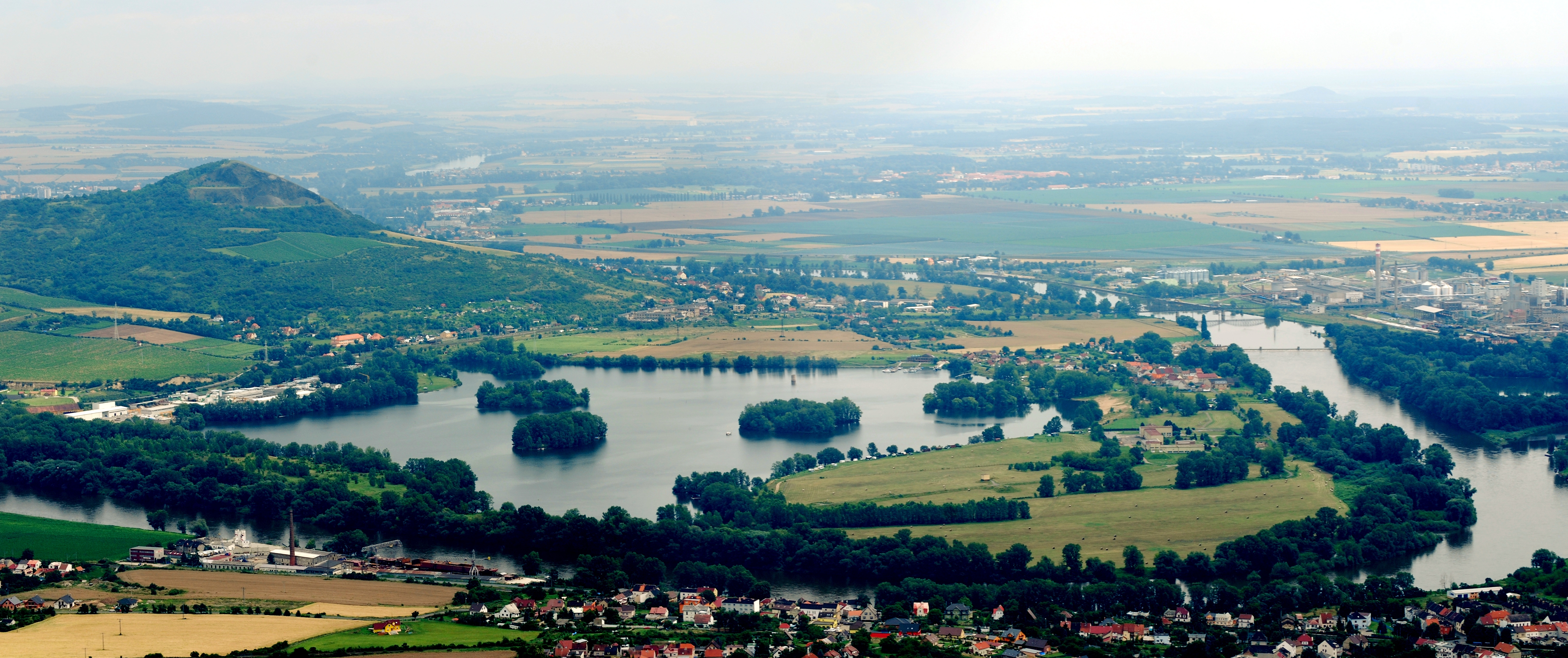 Žernoseky Lake from Lovoš hill